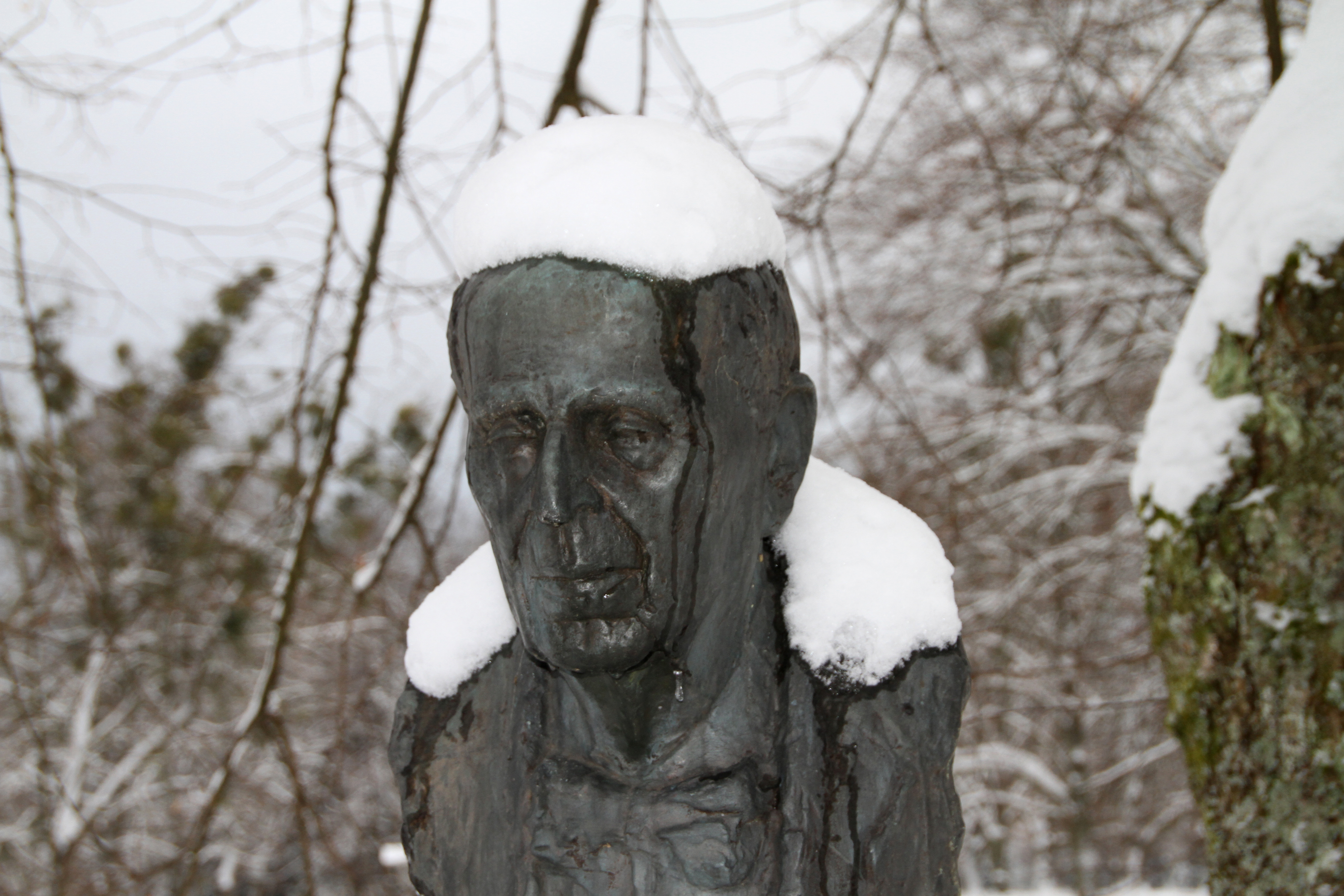 Bust of the composer Robert Stolz in the Lichtentaler Allee in Baden-Baden.